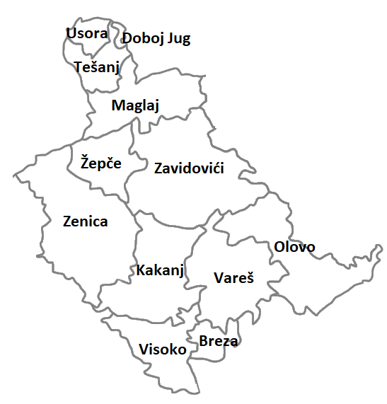 A map of the Cities and municipalities in the Zenica-Doboj Canton.